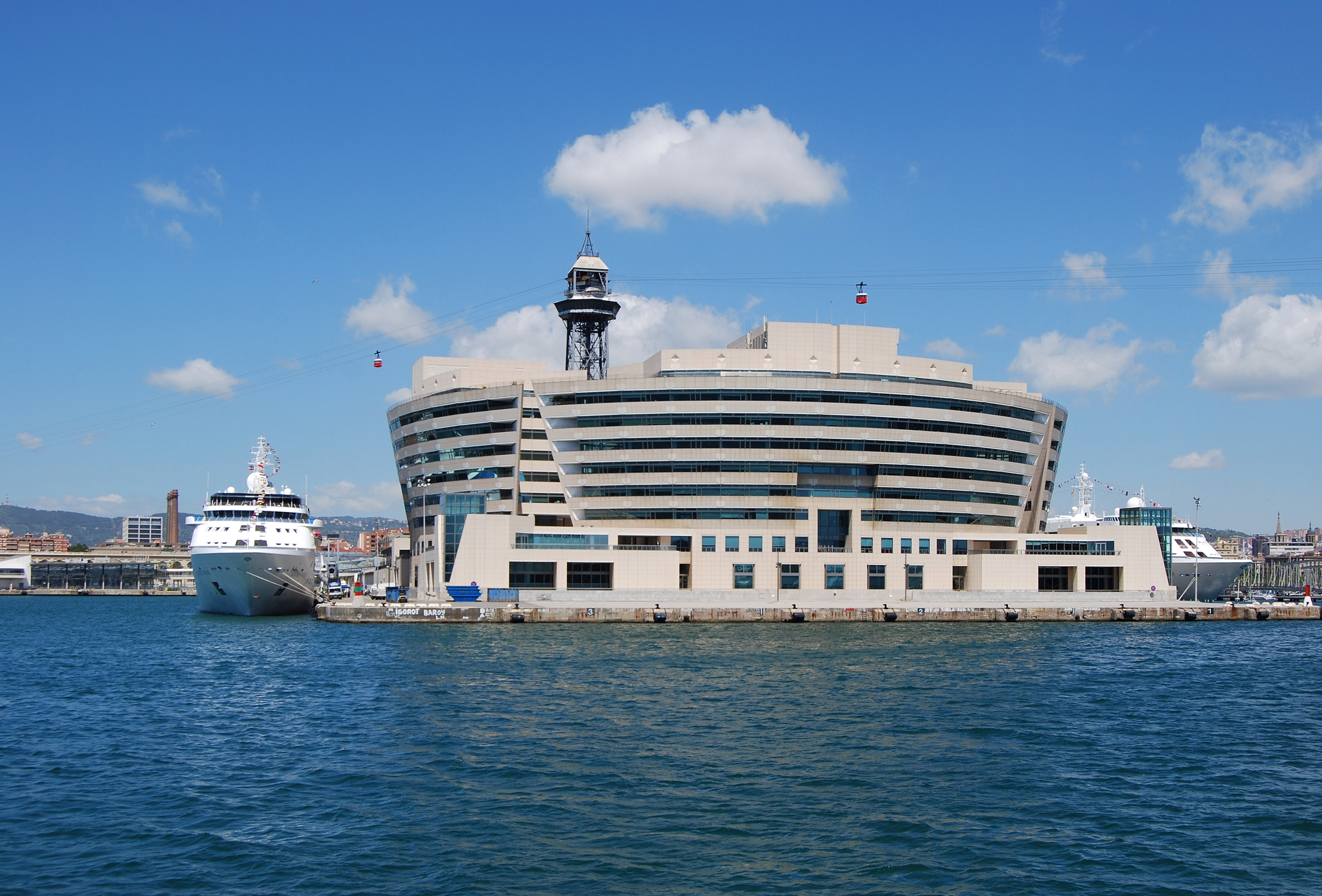 World Trade Center Barcelona, a business park in Barcelona.